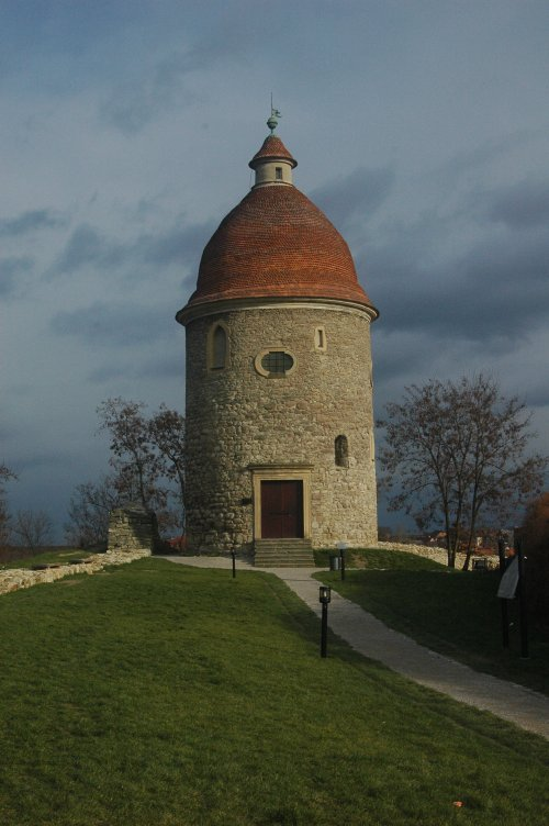 St. George Rotunda, Skalica, Slovakia This medium shows the protected monument with the number 206-718/0 in the Slovak Republic.